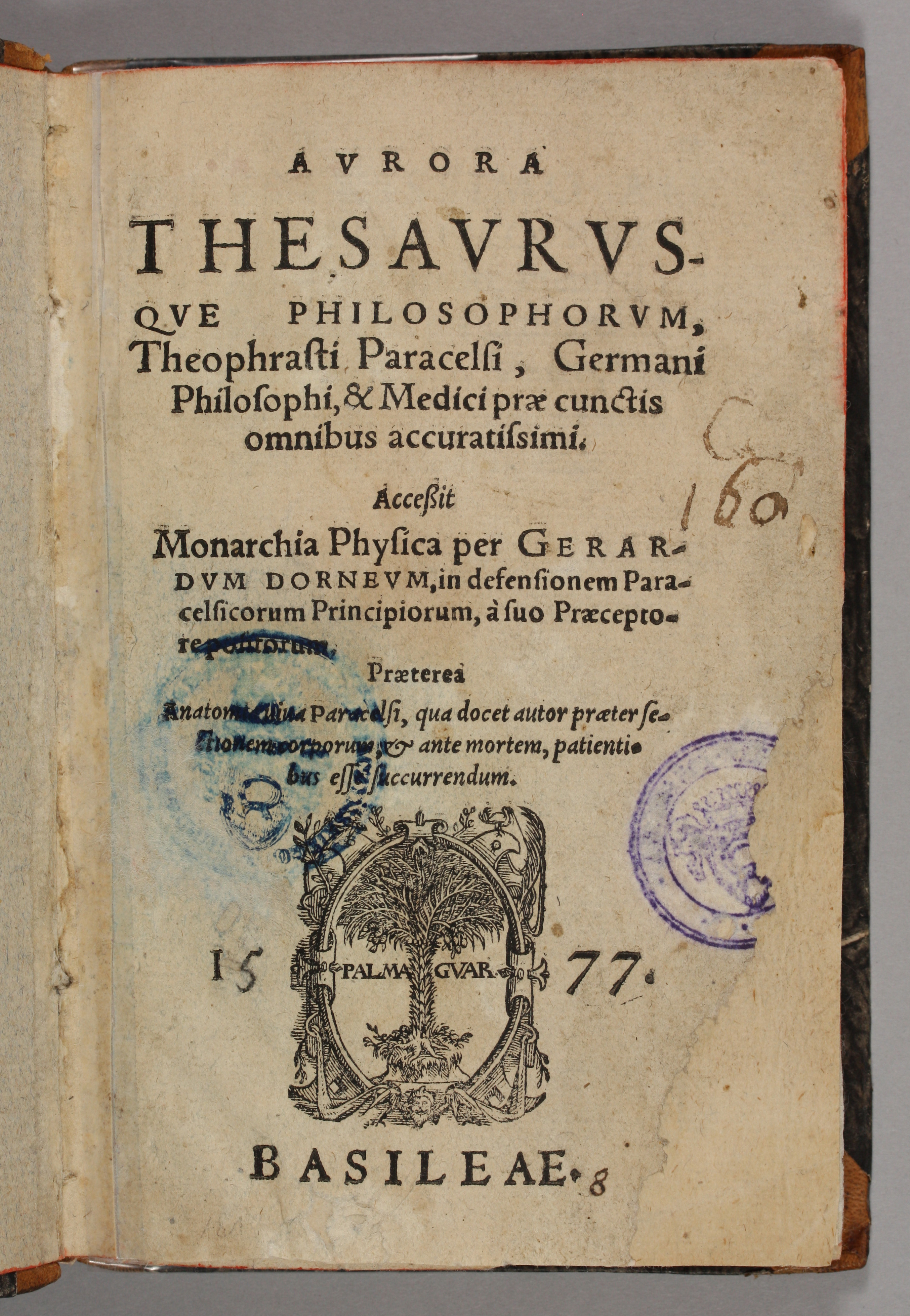 Title page of Aurora thesaurusque philosophorum / Theophrasti Paracelsi ... ; accessit Monarchia physica per Gerardum Dorneum, in defensionem Paracelsicorum principiorum, à suo praeceptore positorum ; praeterea Anatomia viva Paracelsi, qua docet autor praeter sectionem corporum, & ante mortem, patientibus esse succurrendum. Basileae : Thomas Guarinus, 1577. First edition of a collection of alchemical treatises attributed to the great chemical physician Theophrastus Bombastus von Hohenheim, known as Paracelsus, and edited by Gerhard Dorn, one of his most ardent followers. The first work in this volume may be Dorn’s own.